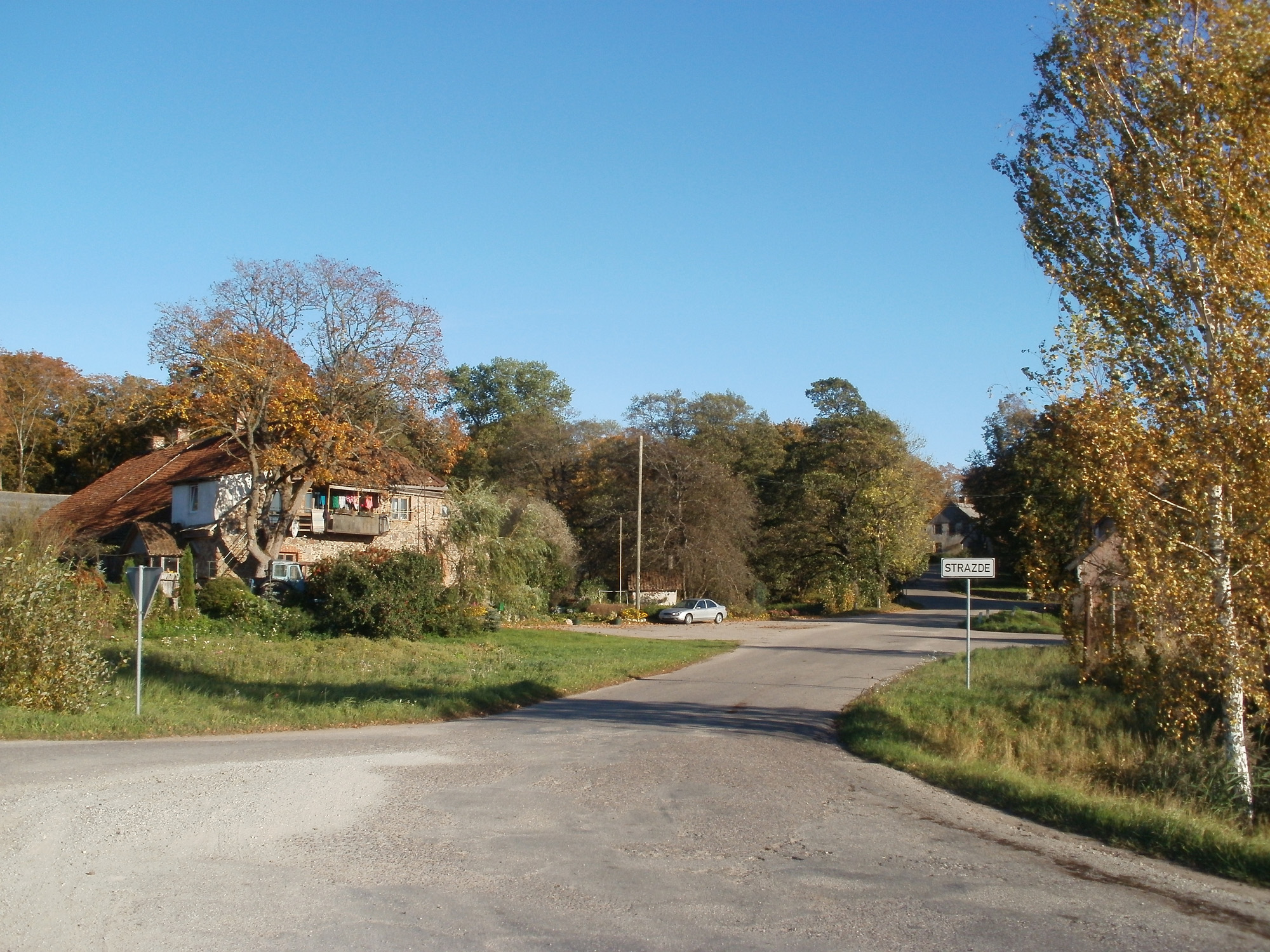 Entering Strazde from JaunpagastsLatviešu: Iebraucot Strazdē no Jaunpagasta puses